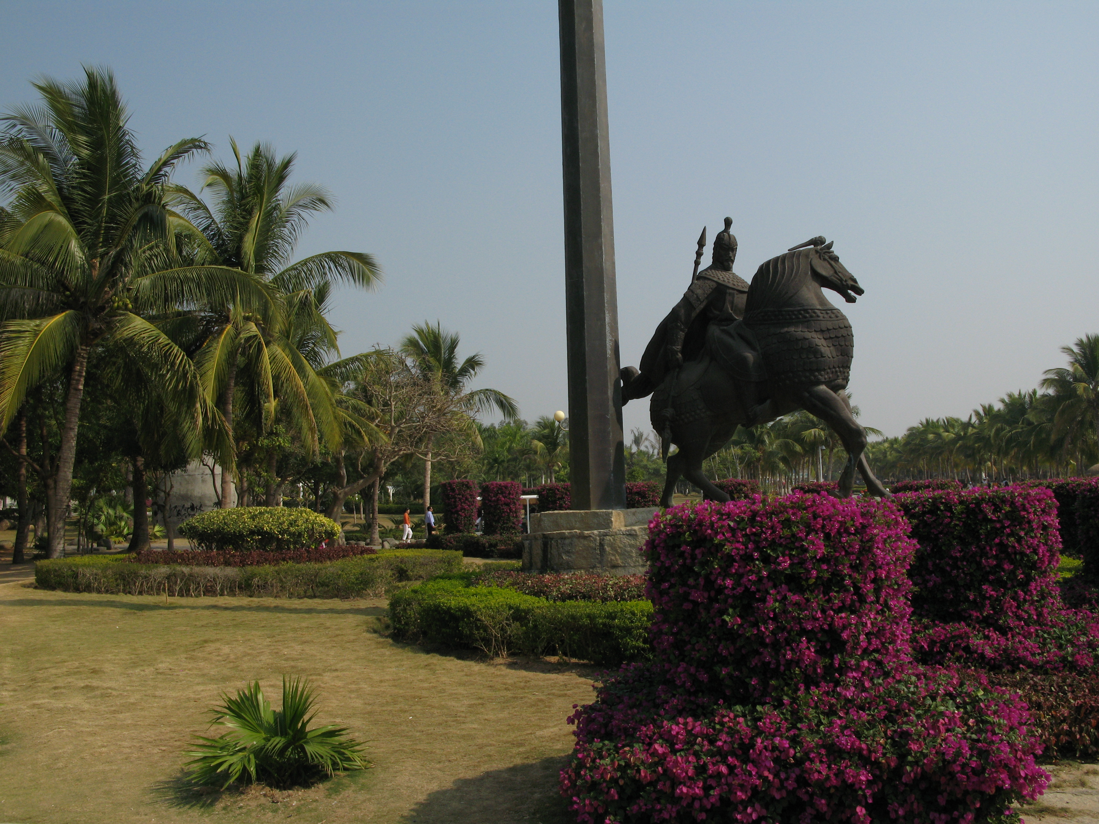 Ma Yuan sculpture in Hai Nan